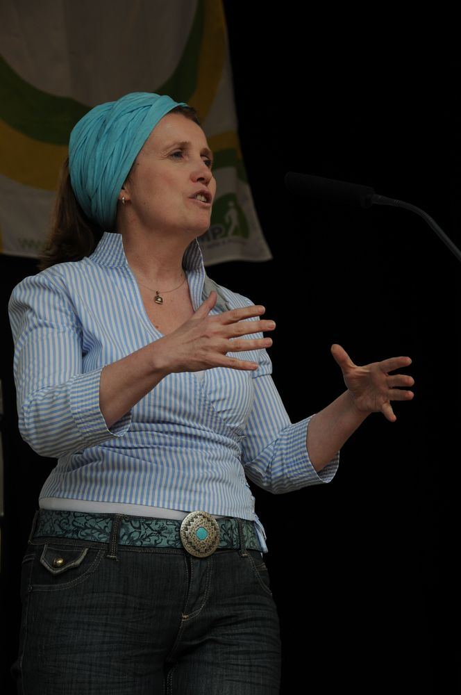 Éva Tétényi, Mayor of Esztergom since 2010